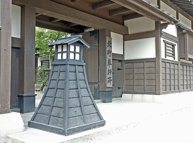 Kita Machi Bugyo-sho Toei Uzumasa Studios Kyoto Japan Jidaigeki 2002 I took this photograph and contribute it to the public domain. I took this photo in 2002.